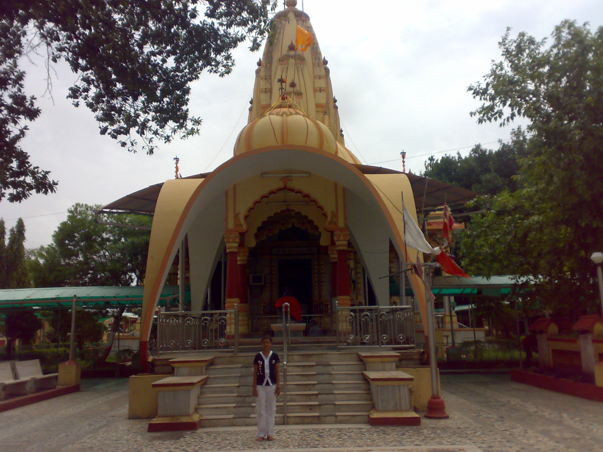 A Shiv temple at Billimora ,Gujarat.